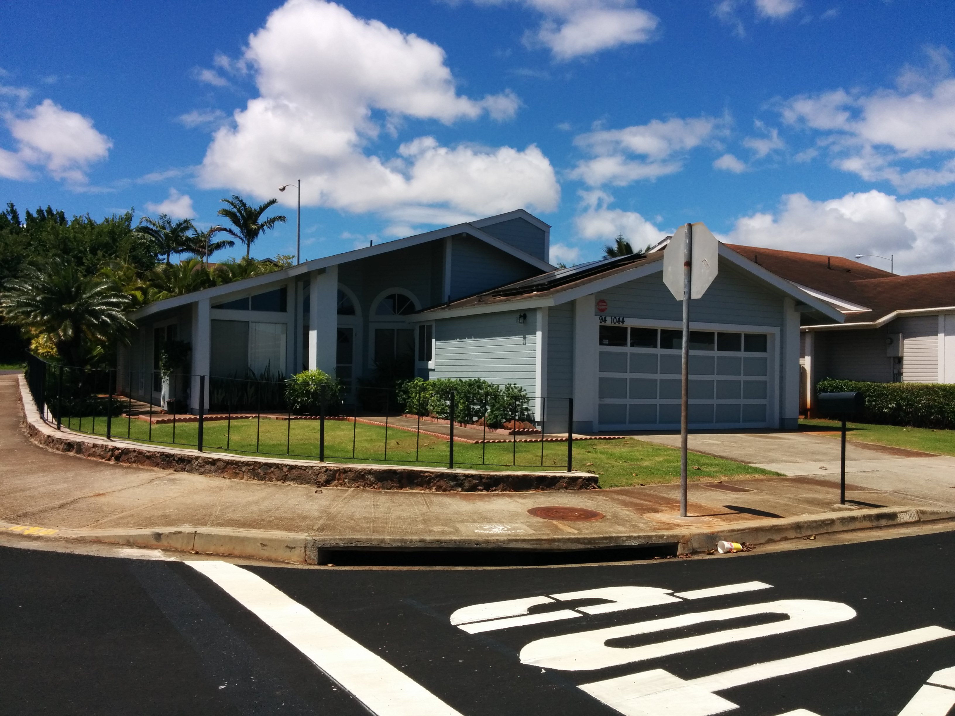 The Waipahu house that Edward Snowden reportedly rented and lived in with his girlfriend for 13 months until May 2013.